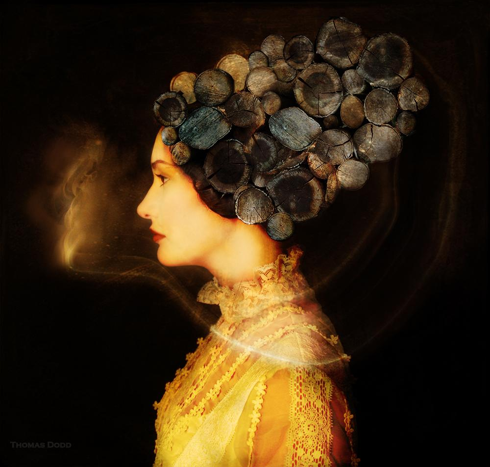 The piece is called "Brainstorm" and is a 30 x 30" Mixed Media Photo Montage and was created in 2010